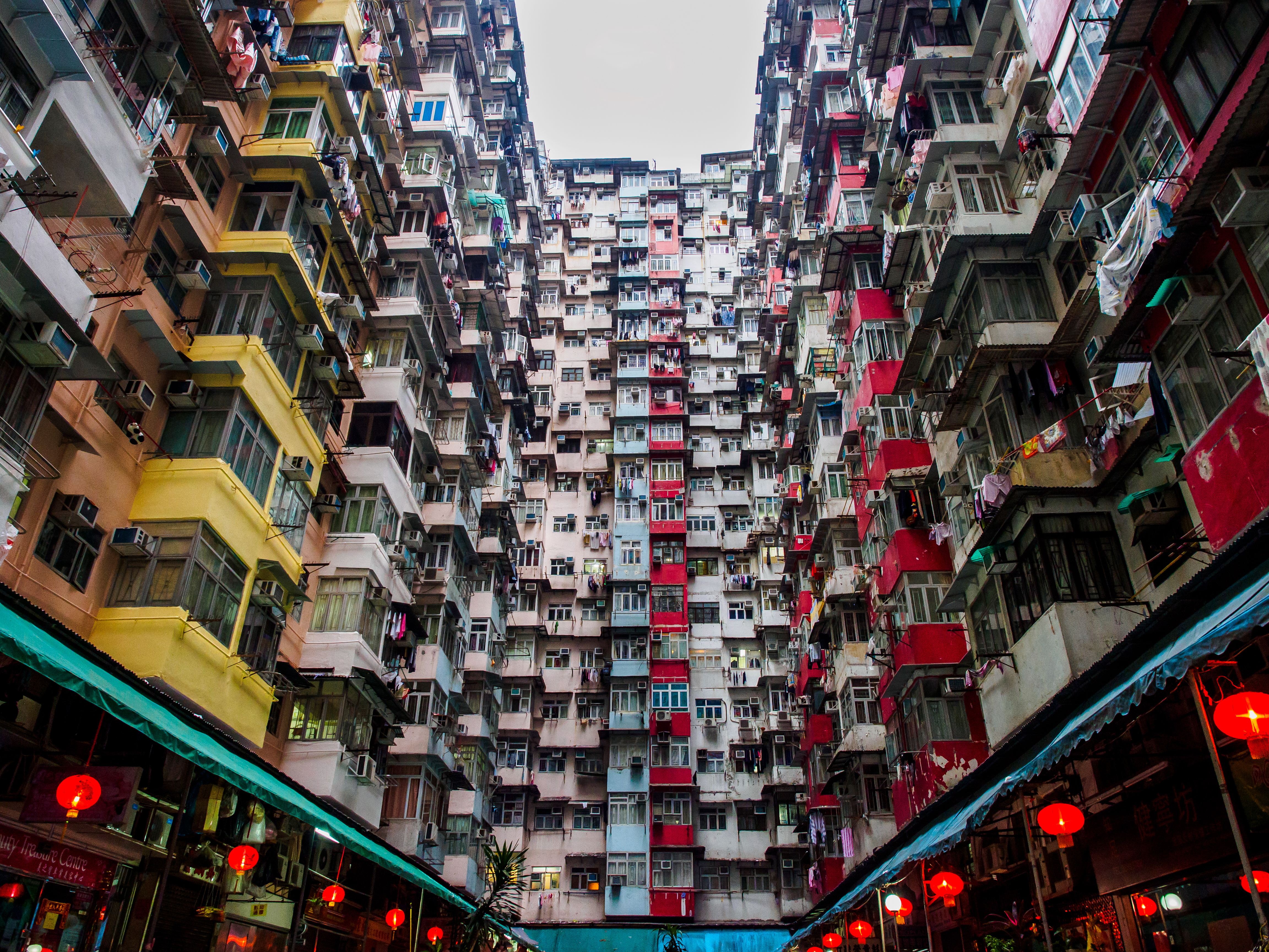 Yick Cheong Building View My IG: ]